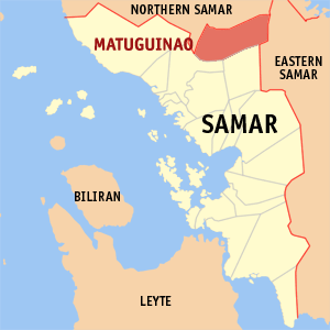 Map of Samar showing the location of Matuguinao